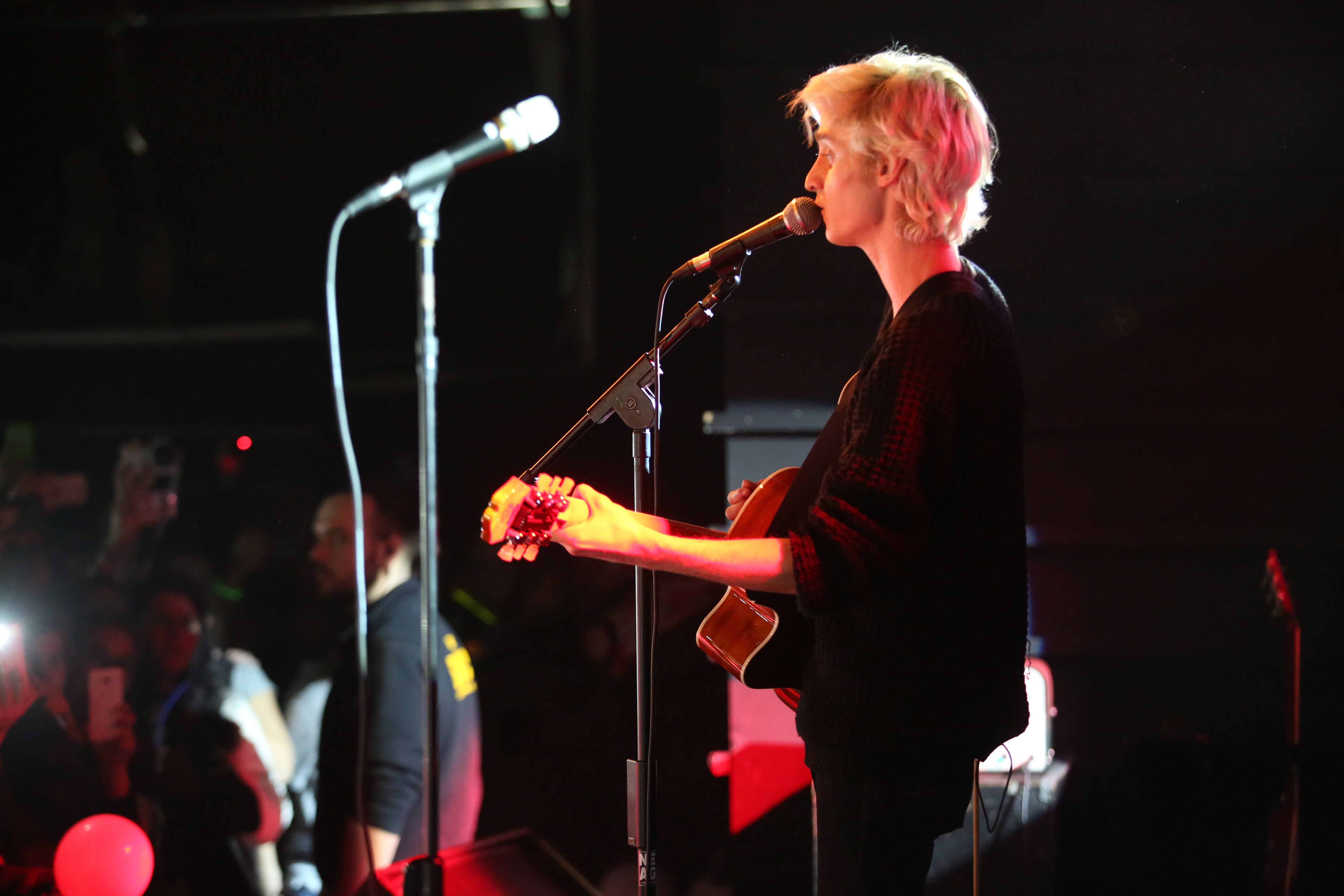 Luca Chikovani live at New Age Club in Roncade on the 13th March, 2016